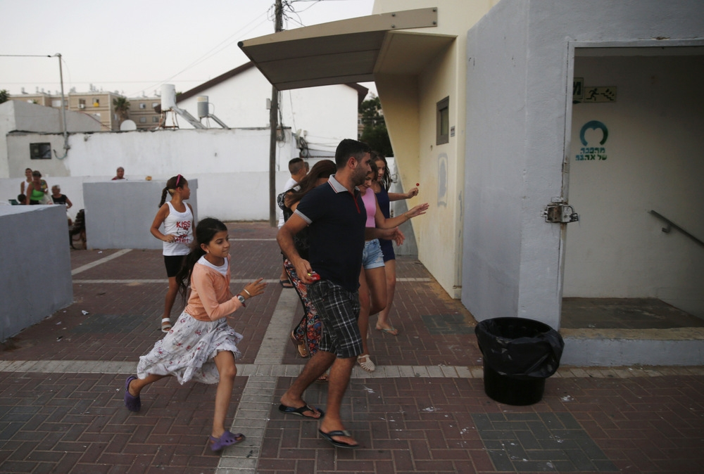 Ashkelon residents run for shelter during a bomb alert.